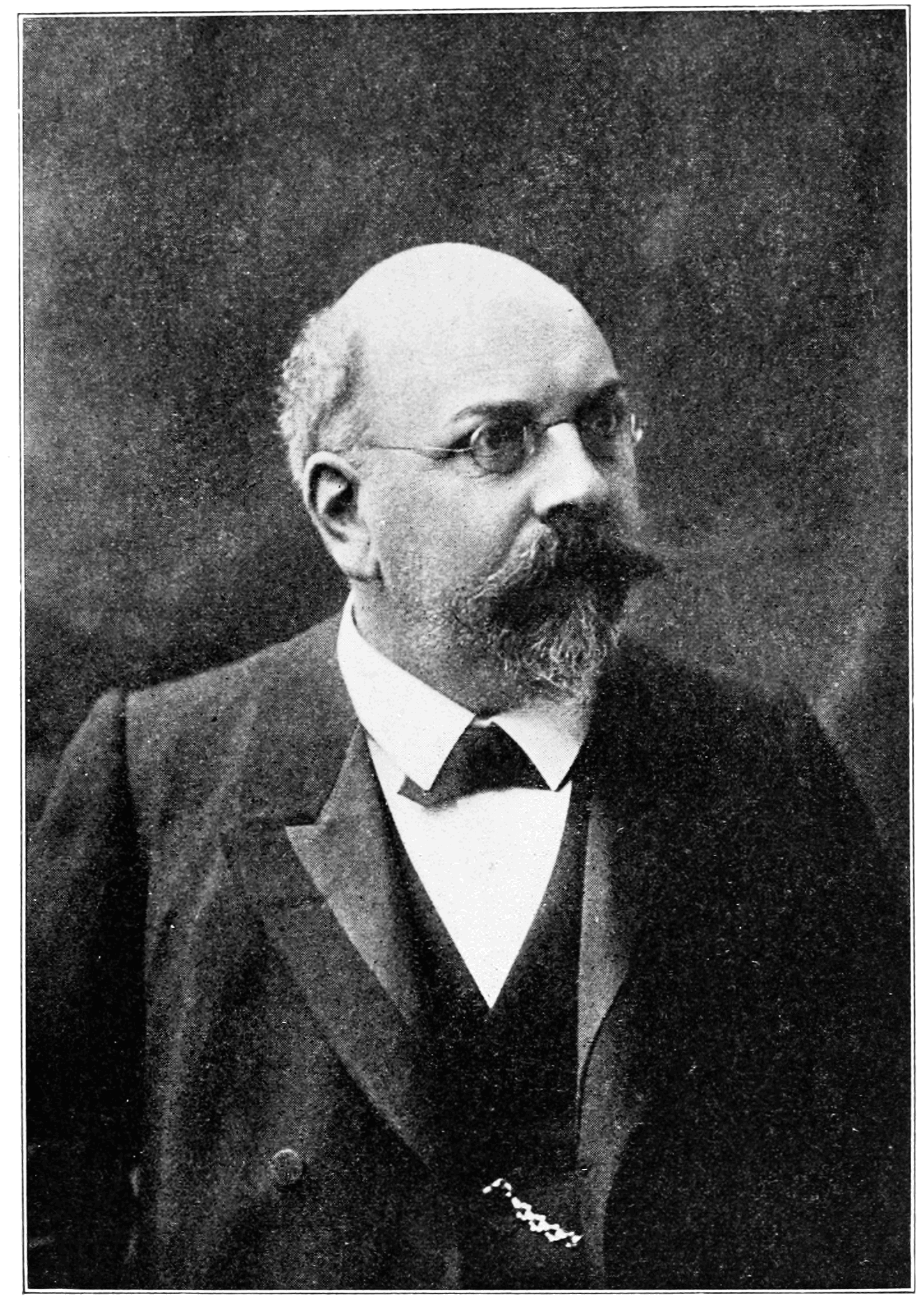 Alfred Giard